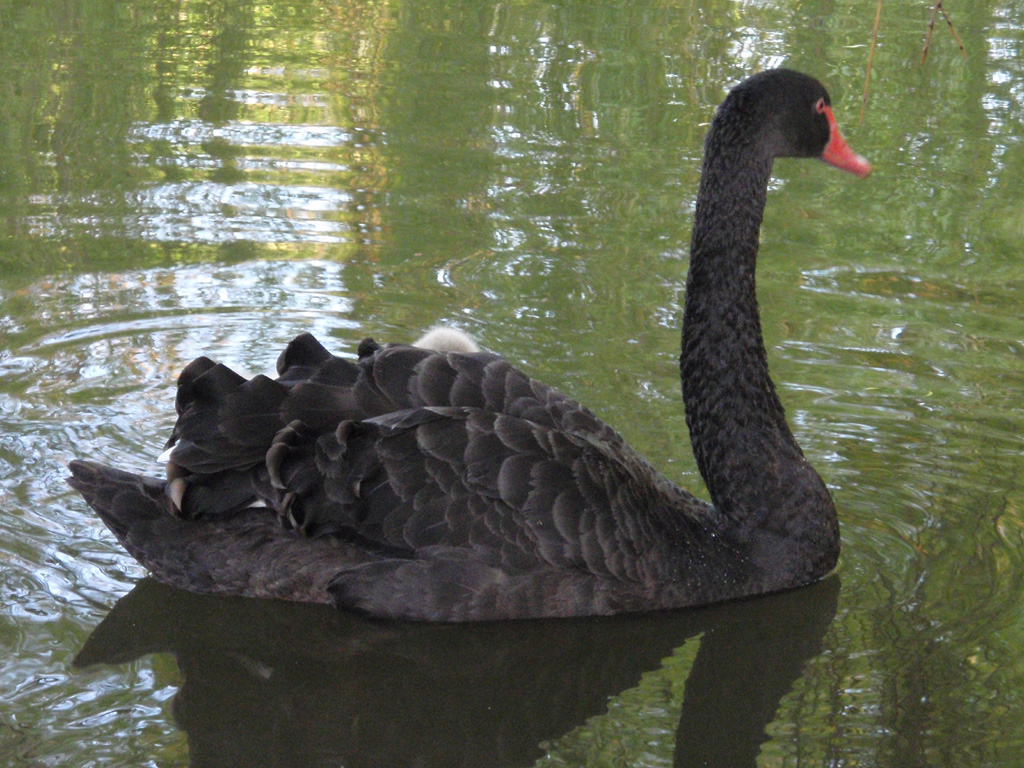 Black swan, University of York